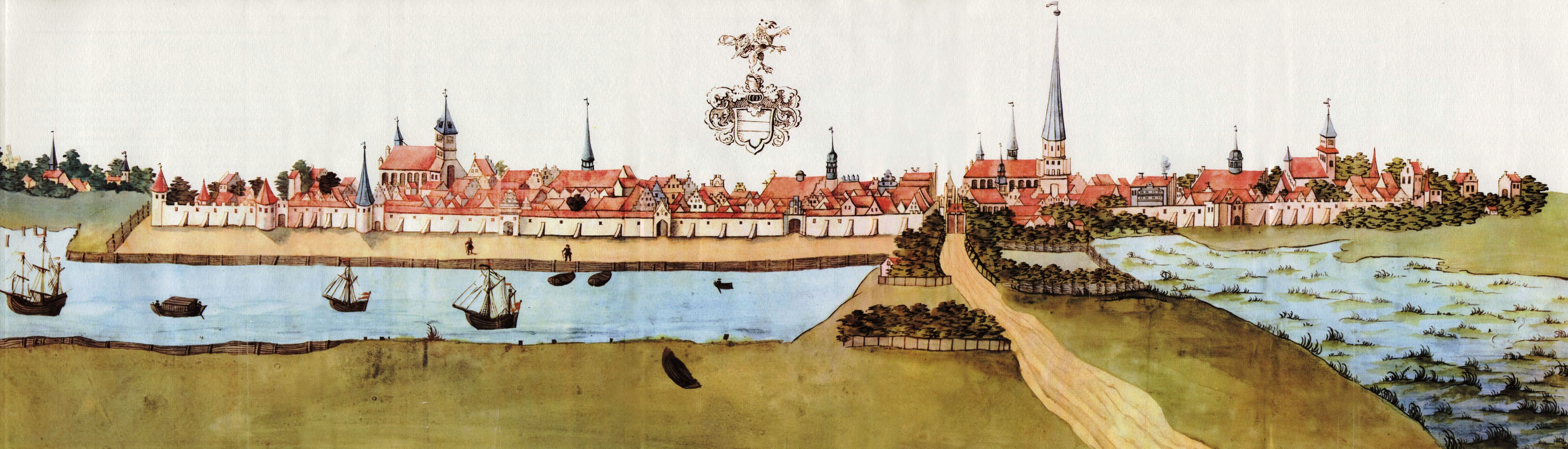 Cityview of Greifswald from the "Stralsunder Bilderhandschrift"